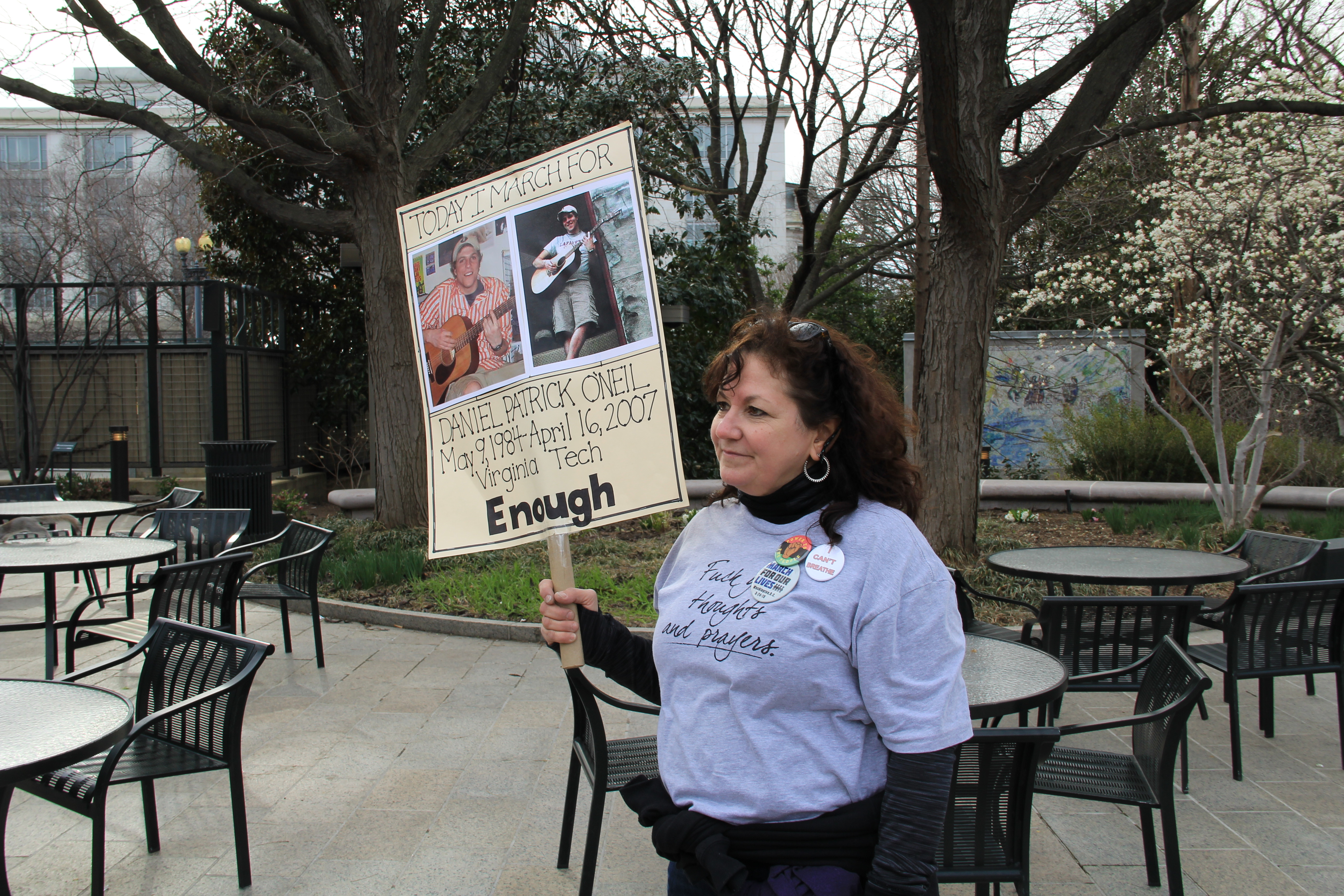 Woman with sign honoring her nephew who died in the 2007 Virginia Tech shooting - March for our Lives, Washington DC 2018